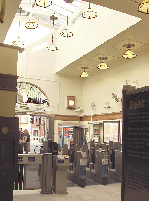 Stamford Brook underground station interior (September 2006)